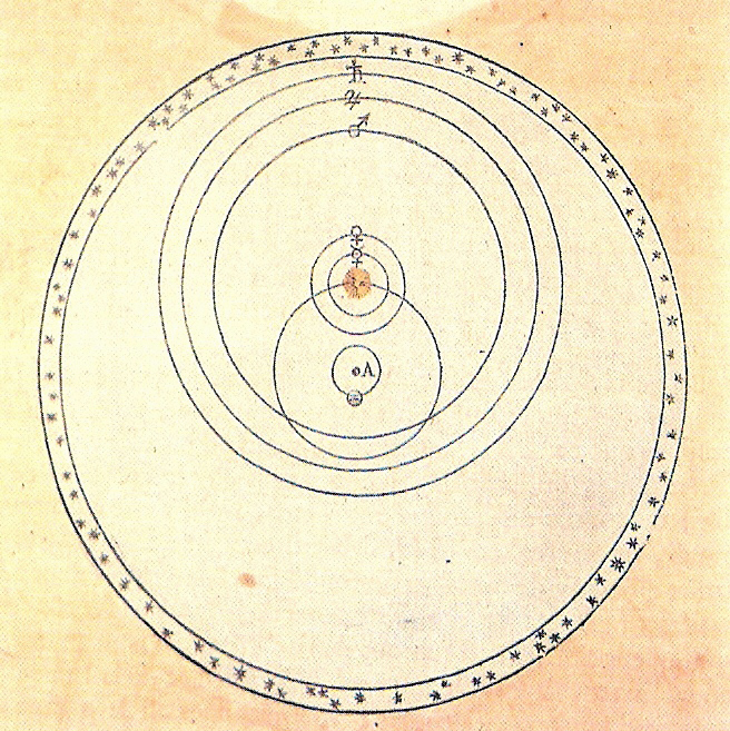 The sky according to Brahe